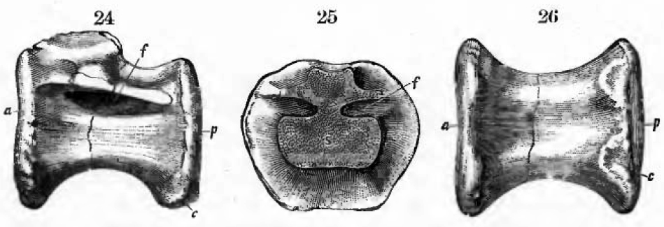 One of the original tail vertebrae of Barosaurus lentus in multiple views.